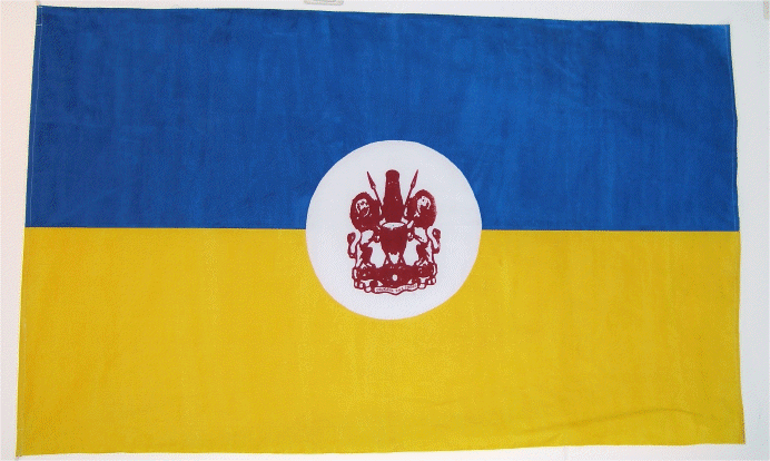 Modern flag of Toro, photo